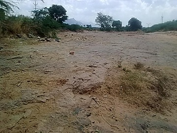 This photo taken at the tamilnadu, india one of the most famous river (vaigai) in india; which is affecting by sand mining. In this tamilnadu state rivers are used as sand mining place. This photo is taken at the vallal river is the one of the source branch river of the vaigai. What this photo says: the sands are not available. so that the agriculture destroyed totally. Lot of acres agriculture destroyed, and those are become drought lands.